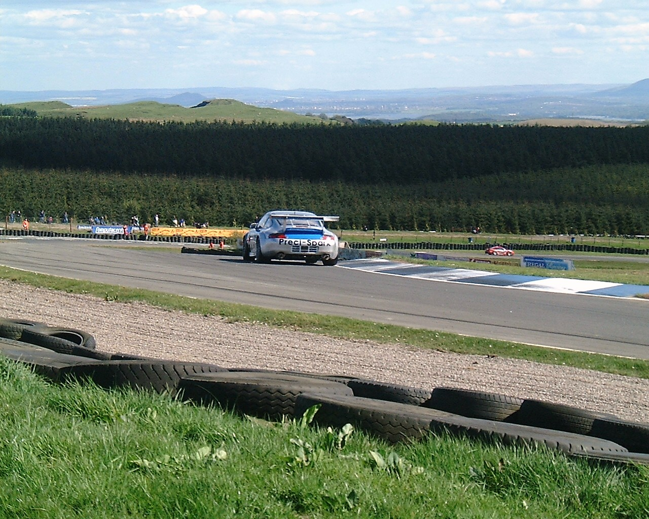 Porsche 911 GT3 at the top of Duffus Dip with Edinburgh in the distances.